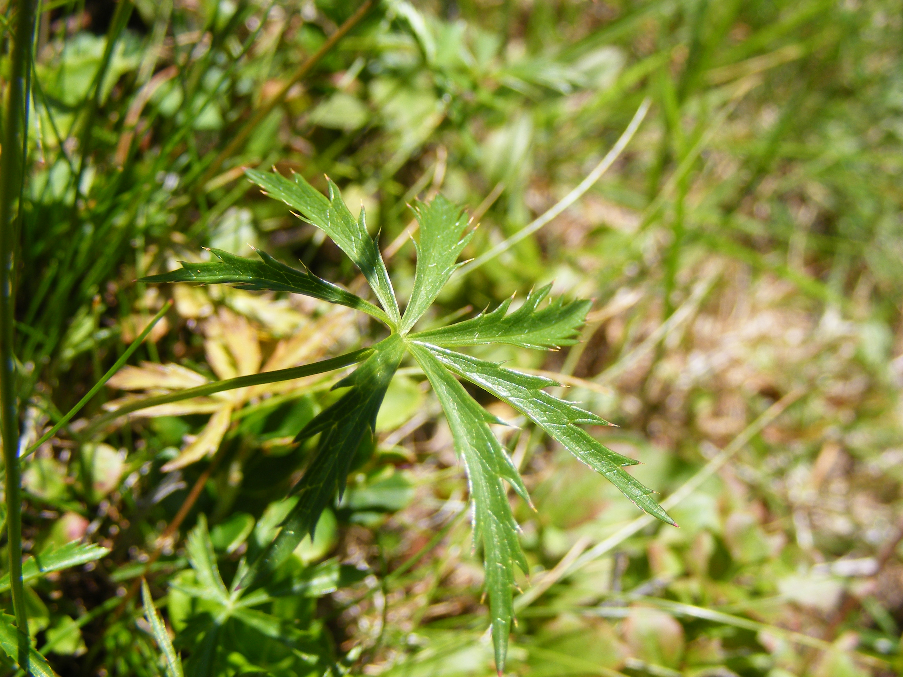 This photo shows Astrantia minor Leaf